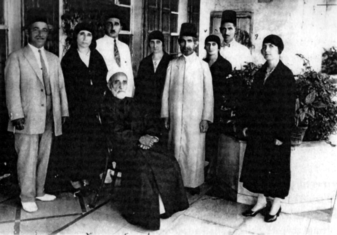 L to R: Amin Ullah Bahai, Laqa’iyya Khanum, Mousa Bahai, Mohammed Ali Bahai (seated), Maryam, Majdeddin bin Moussa Irani, Zaranguise, Mirza Jamil, Soraya Khanum Samandari.